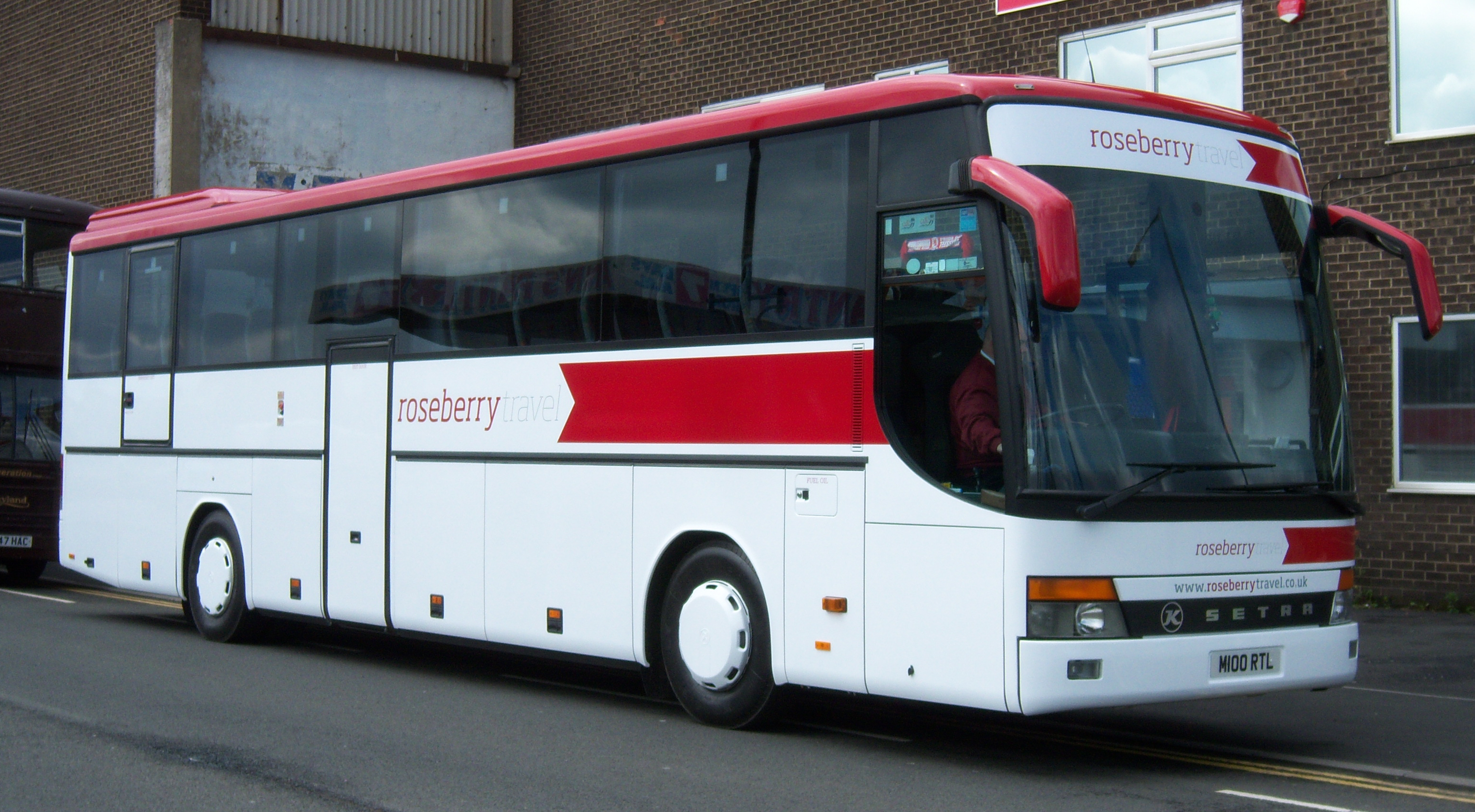 Roseberry Travel coach (reg. M100 RTL), a 2004 Setra S315GT-HD single-decker, pictured at the 2012 Teeside Running Day. It's parked on Durham Street facing north (see the rally categories for further operational/location details). Fitted with 49 seats and a toilet, it was new to to Atkinson of Ingleby Arncliffe. Initially registered BX04 NAA, Atkinson later applied the cherished registration H16 ATK, a practice continued by Roseberry with M100 RTL.